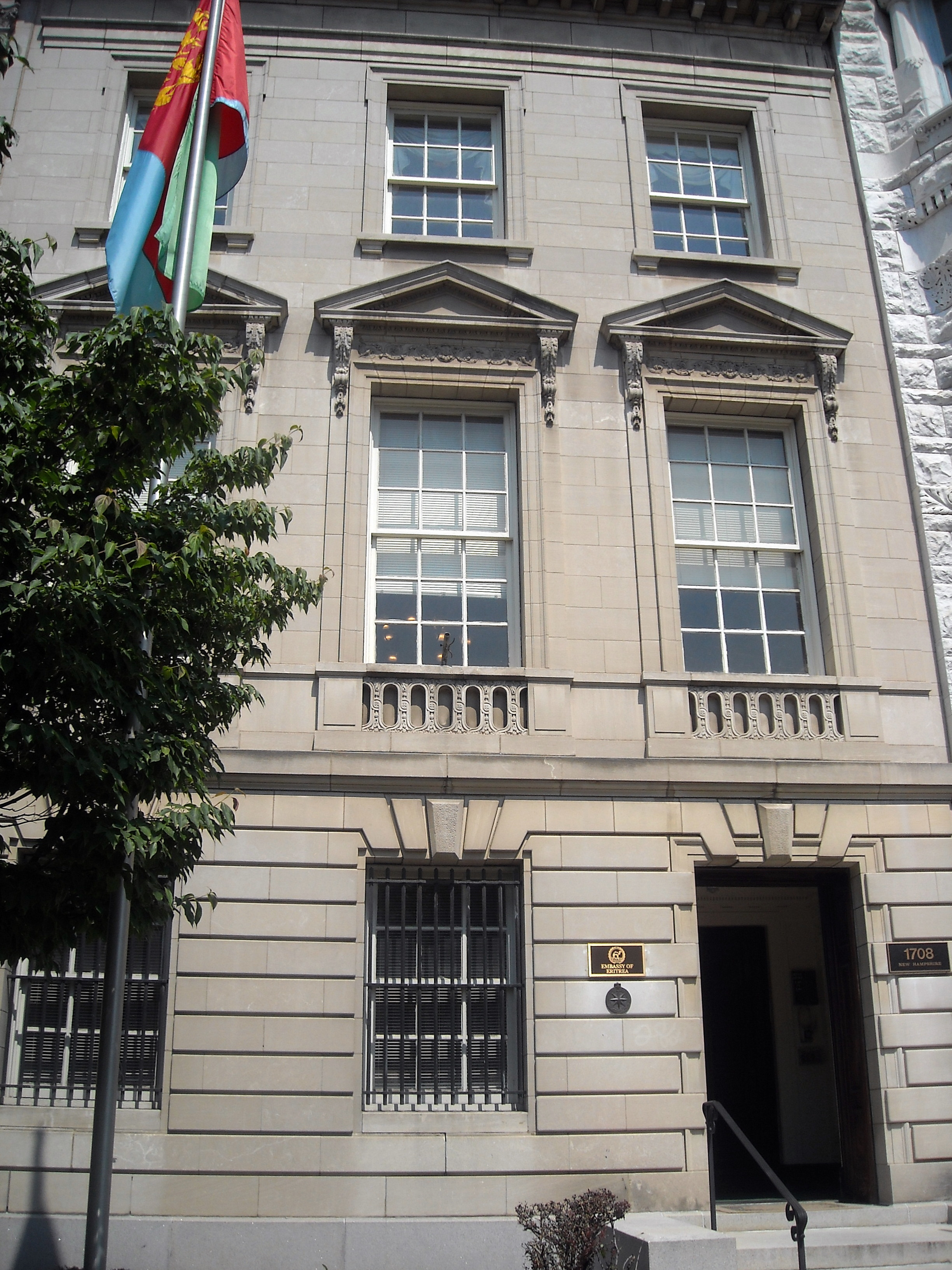 Embassy of Eritrea at 1708 New Hampshire Avenue, NW in the Dupont Circle neighborhood of Washington, D.C.